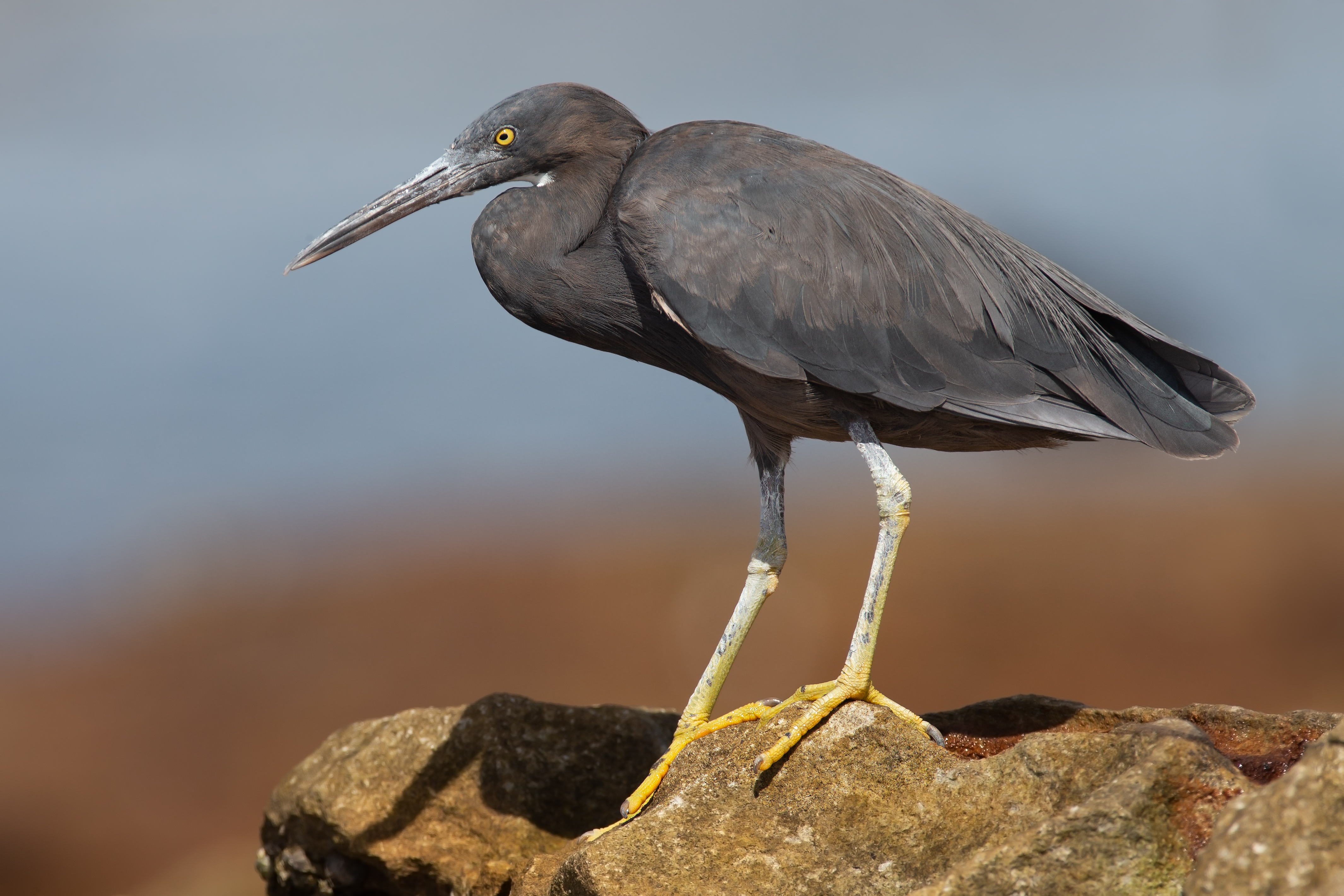 Pacific reef heron (Egretta sacra), Boat Harbour, New South Wales, Australia